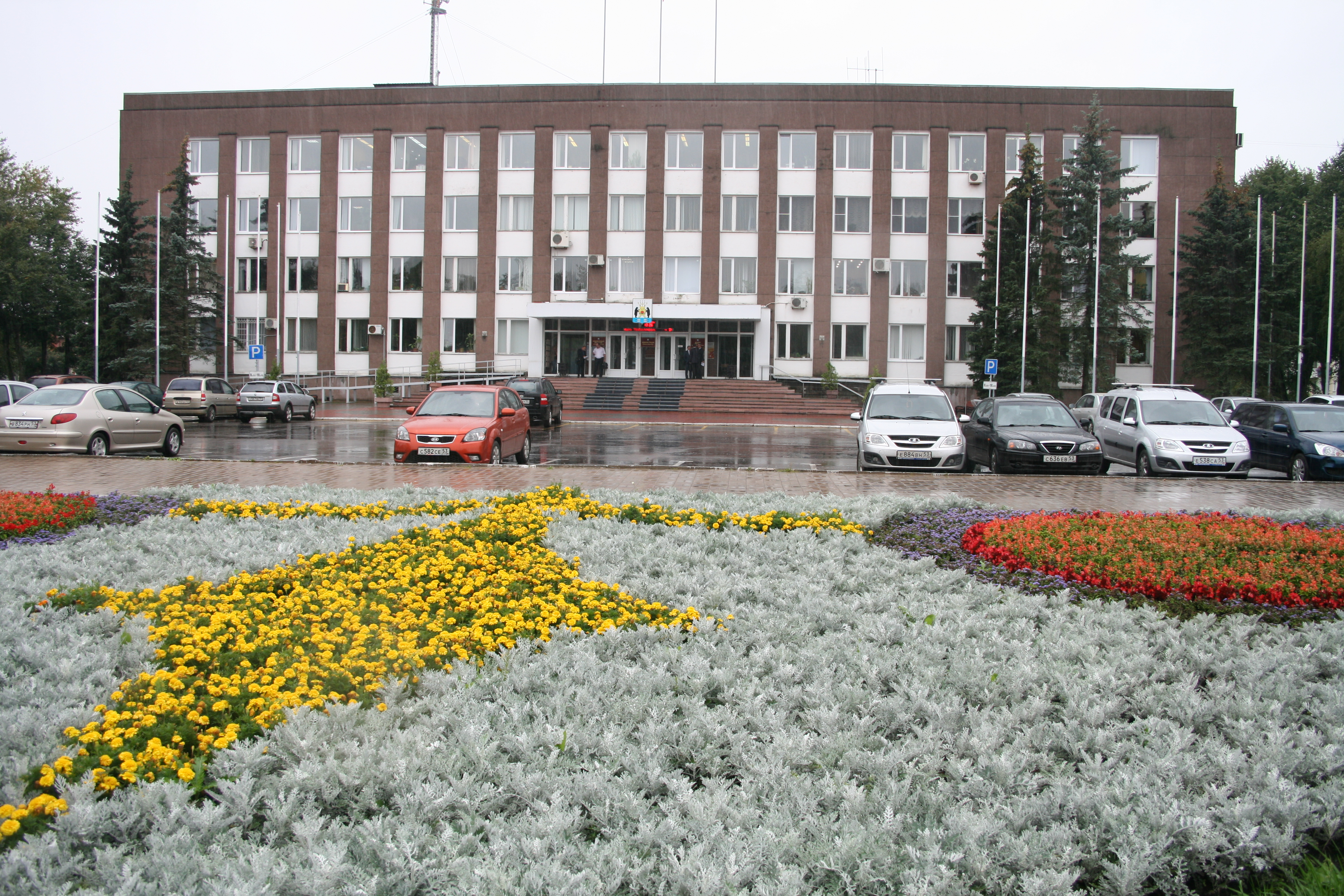 Veliky Novgorod city hall, exterior